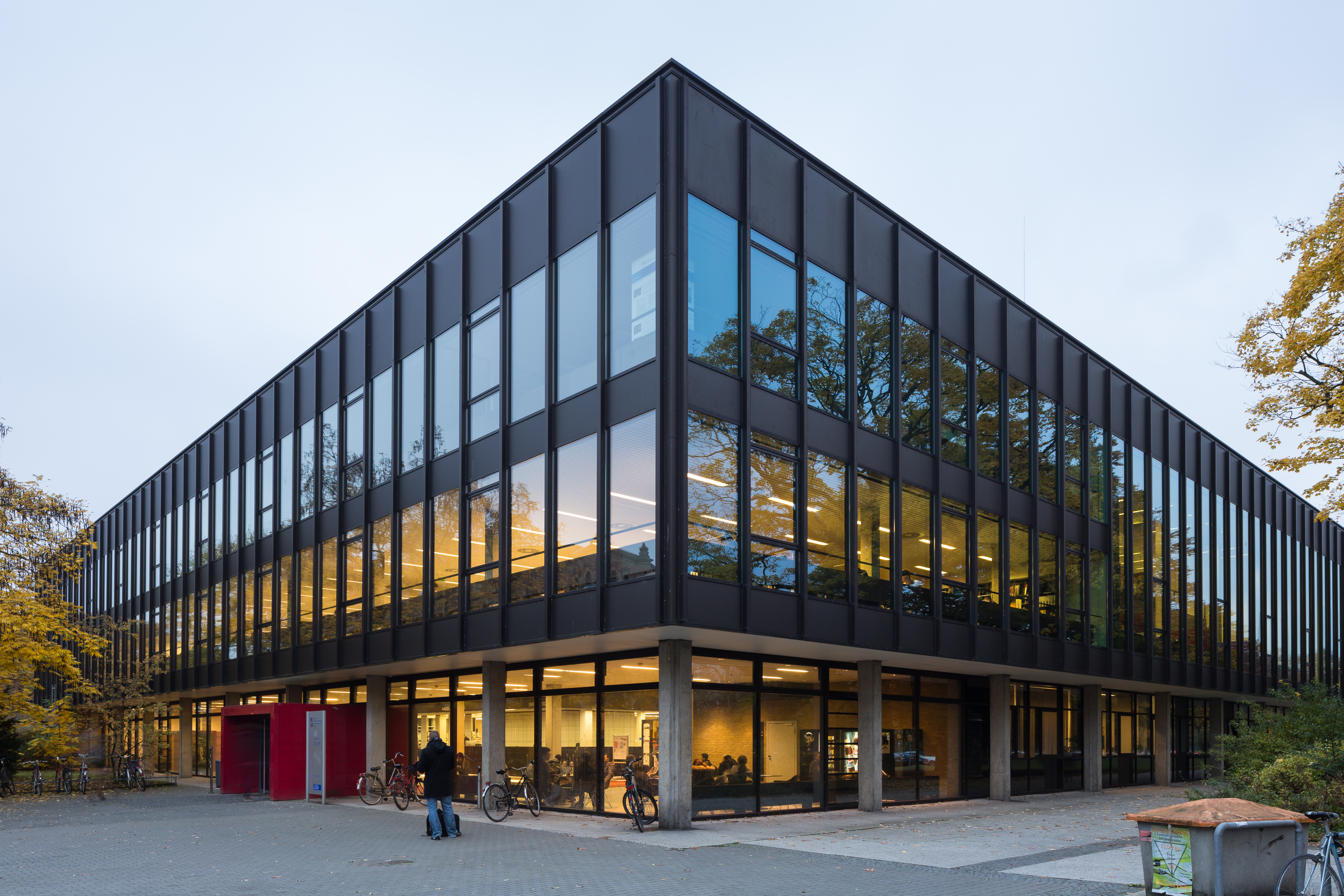 Library building of German National Library of Science and Technology / University Library Hannover (TIB / UB) located at Am Welfengarten no. 1b in Nordstadt district of Hanover, Germany. View of the facade where the main entrance is located (in red).